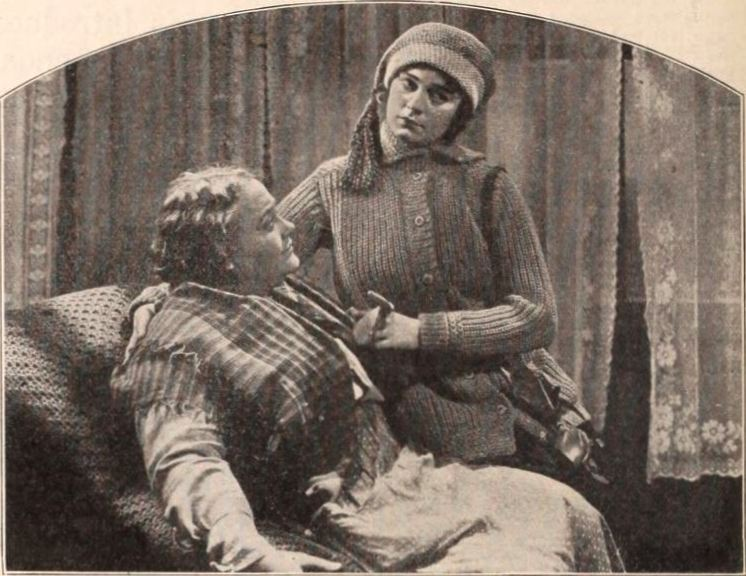 Still from the American drama film No Woman Knows (1921) with Grace Marvin and Mabel Julienne Scott, on page 40 of the September 10, 1921 Exhibitors Herald.